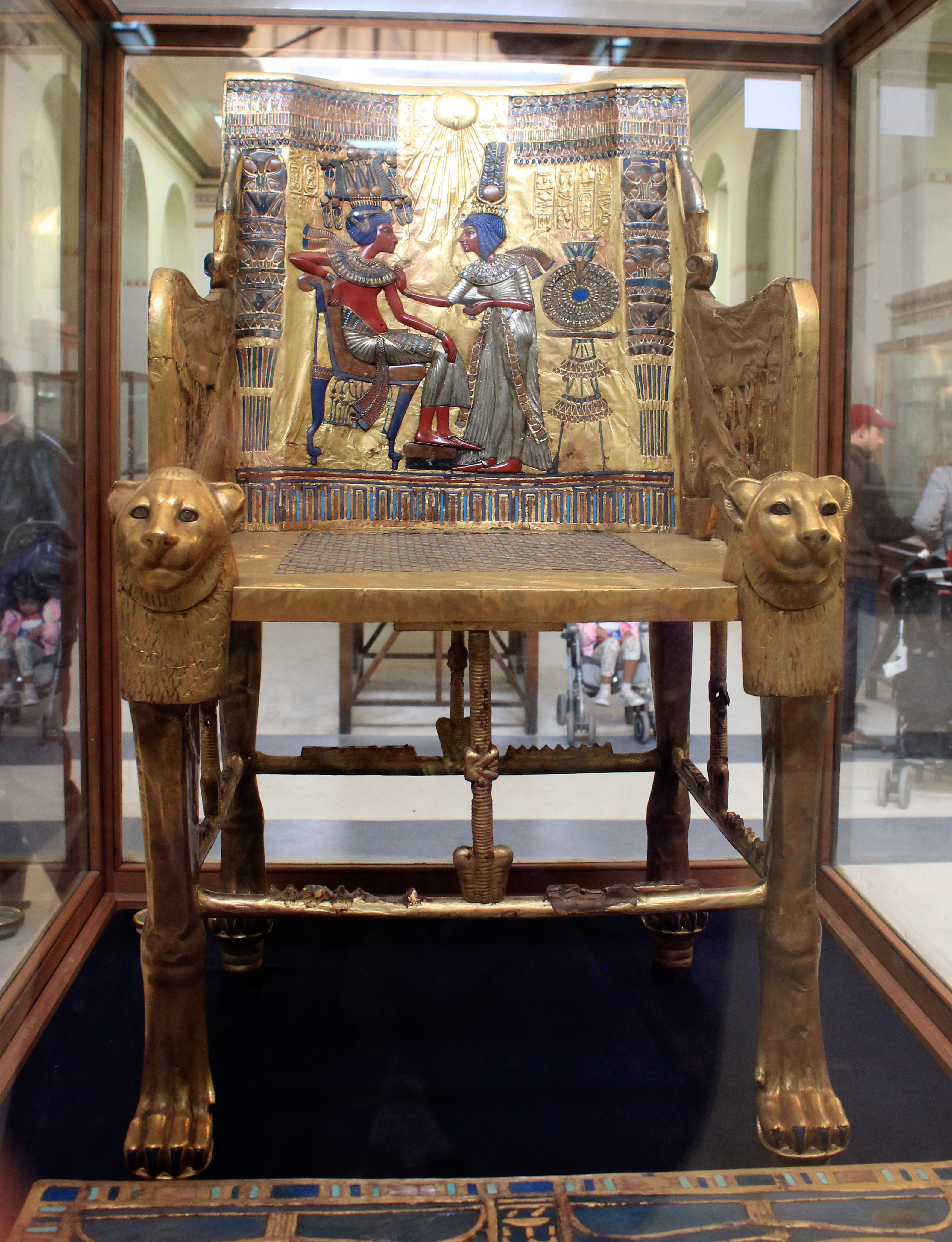 Egyptian Museum in Cairo, Egypt.)